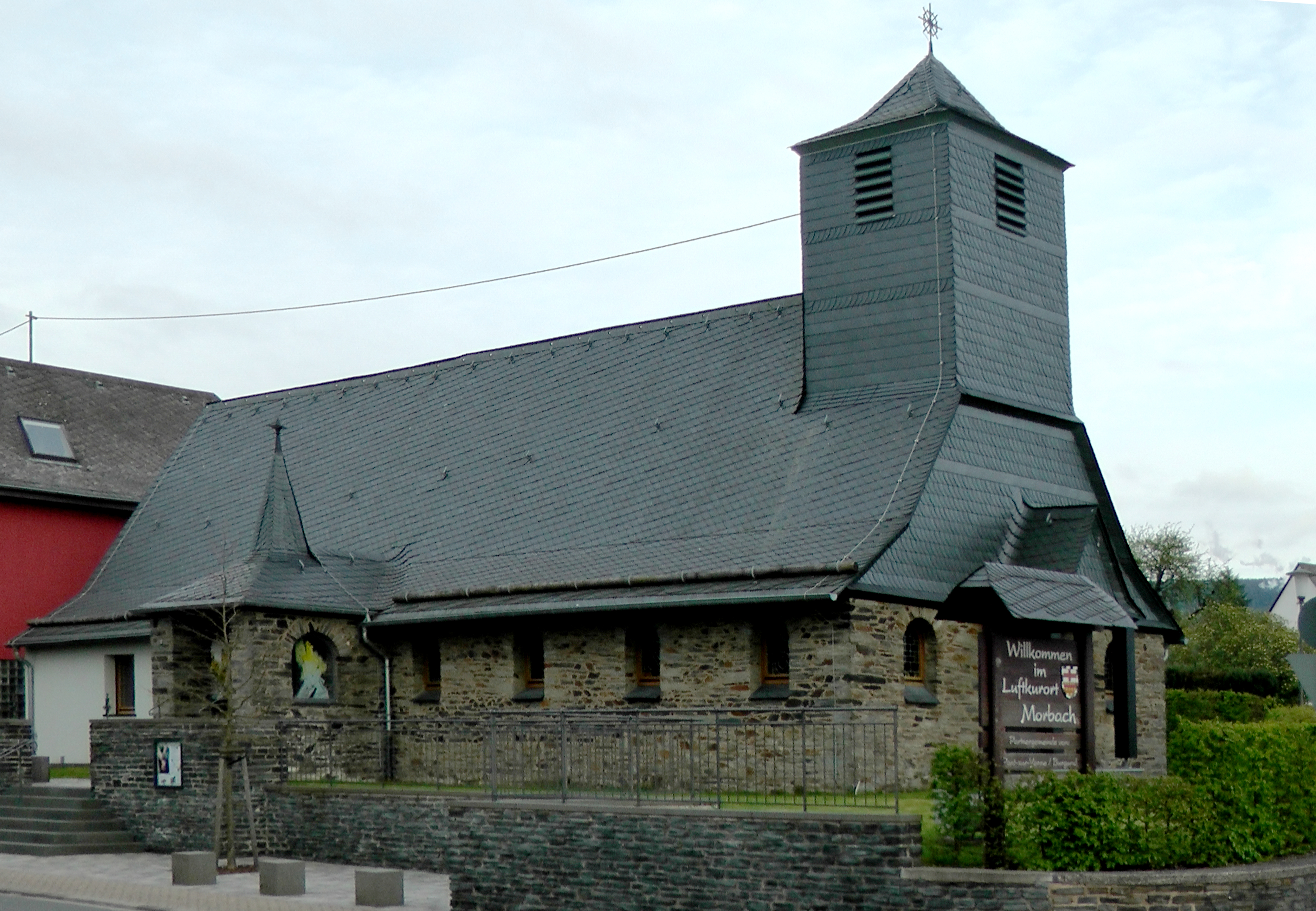 Protestant Church Morbach